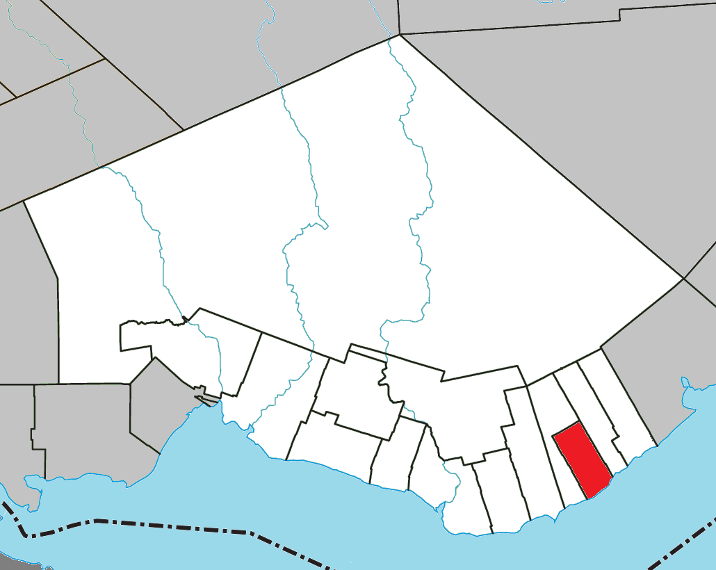 Location of Hope Town, Quebec within Bonaventure Regional County Municipality.